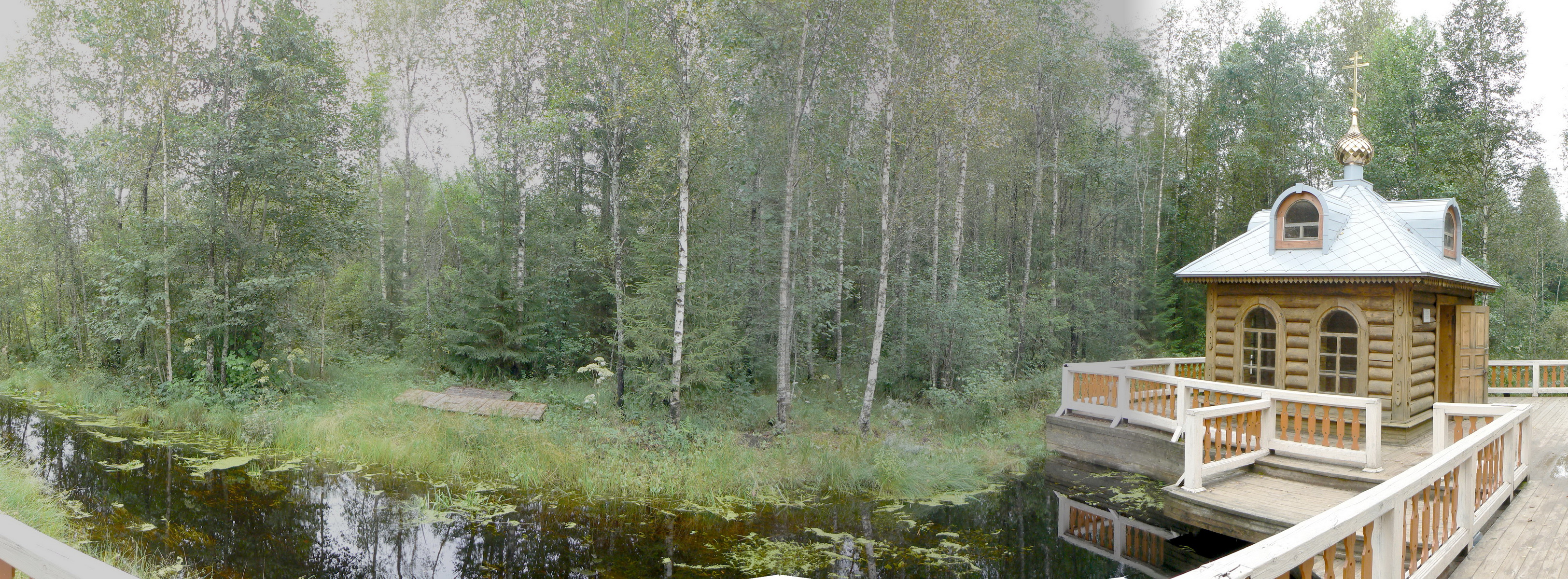 Source of the VolgaHrvatski: Izvor Volge